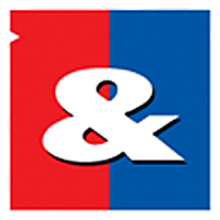 The last logo of the former gay club Red & Blue (1997-2017) in Antwerp, Belgium.